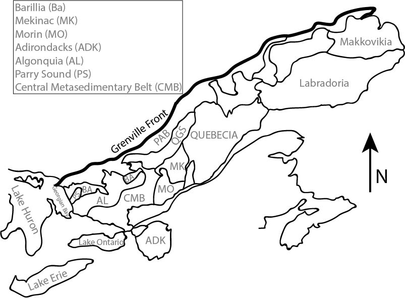 The subdivisions of the Grenville Province. This is modified from McLelland et al., 2010